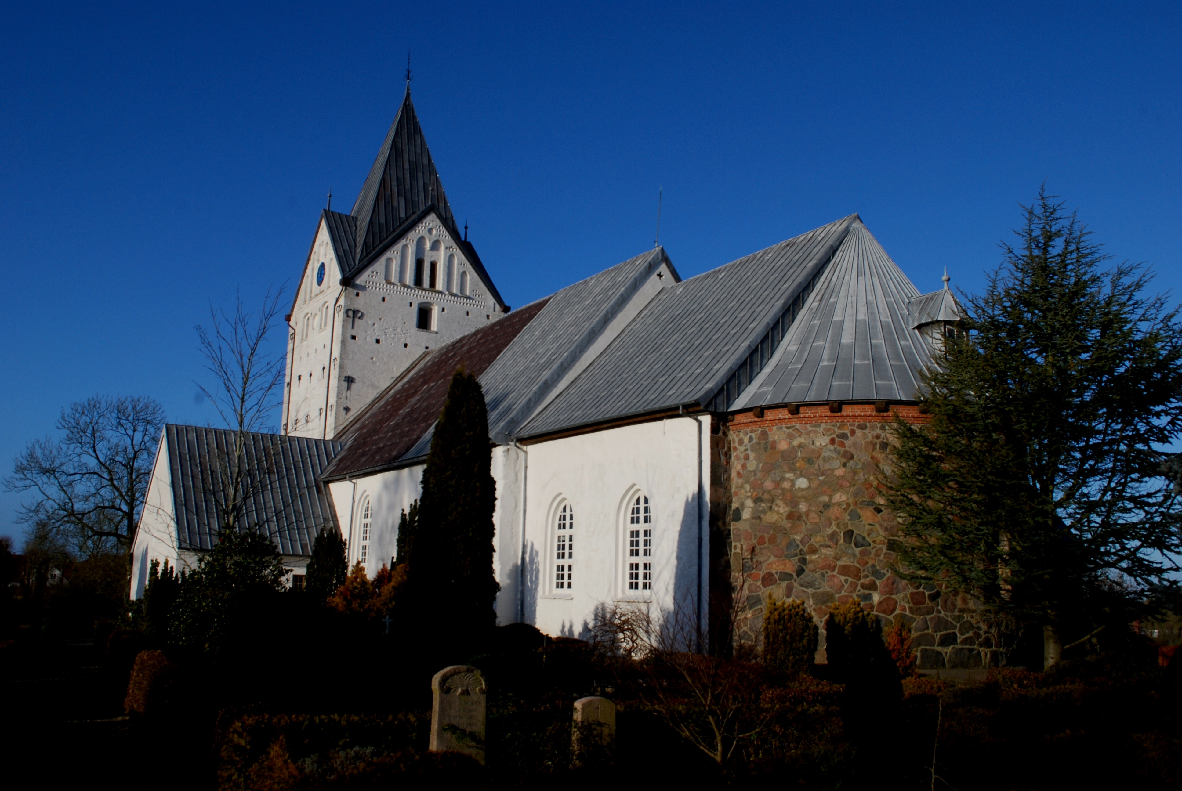 Church of Sønder Bjert, Sønder Bjert, Kolding, Denmark